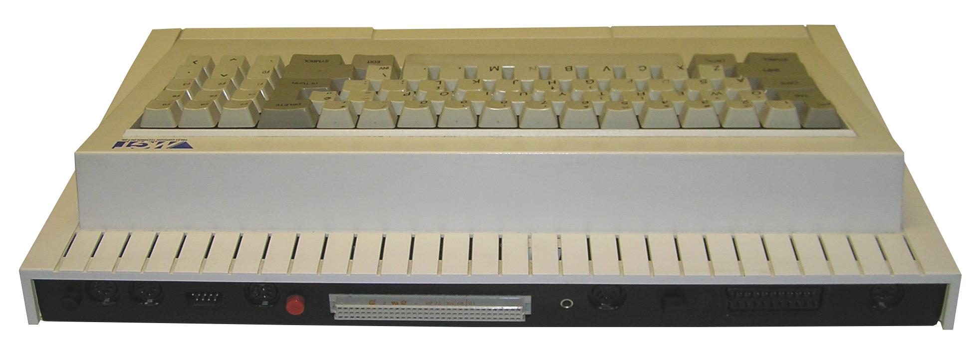 Rear of a SAM Coupé. Photographed by me. Released into the public domain. Ports and buttons from left-to-right: Break, MIDI Out, MIDI In, Joystick, Mouse, Reset, Expansion Port, Casette, Stereo sound output/Light Pen input, On/Off, SCART (non-standard), Power/TV-Output Unfortunately, the SAM Coupé logo has worn off this machine.